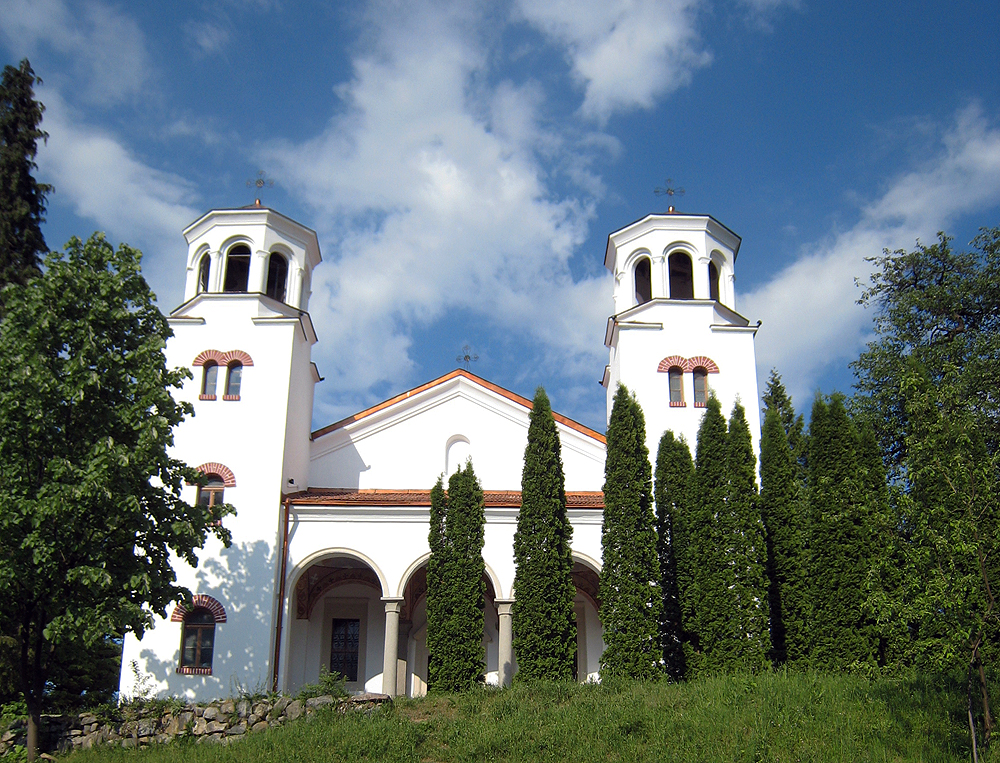 Klisura Monastery Church "St.Cyrilus and St.Methodius"